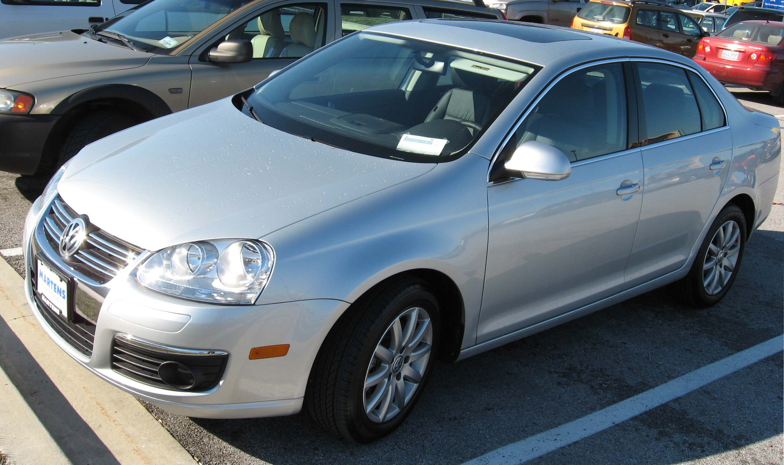 2005-2007 Volkswagen Jetta photographed in USA.